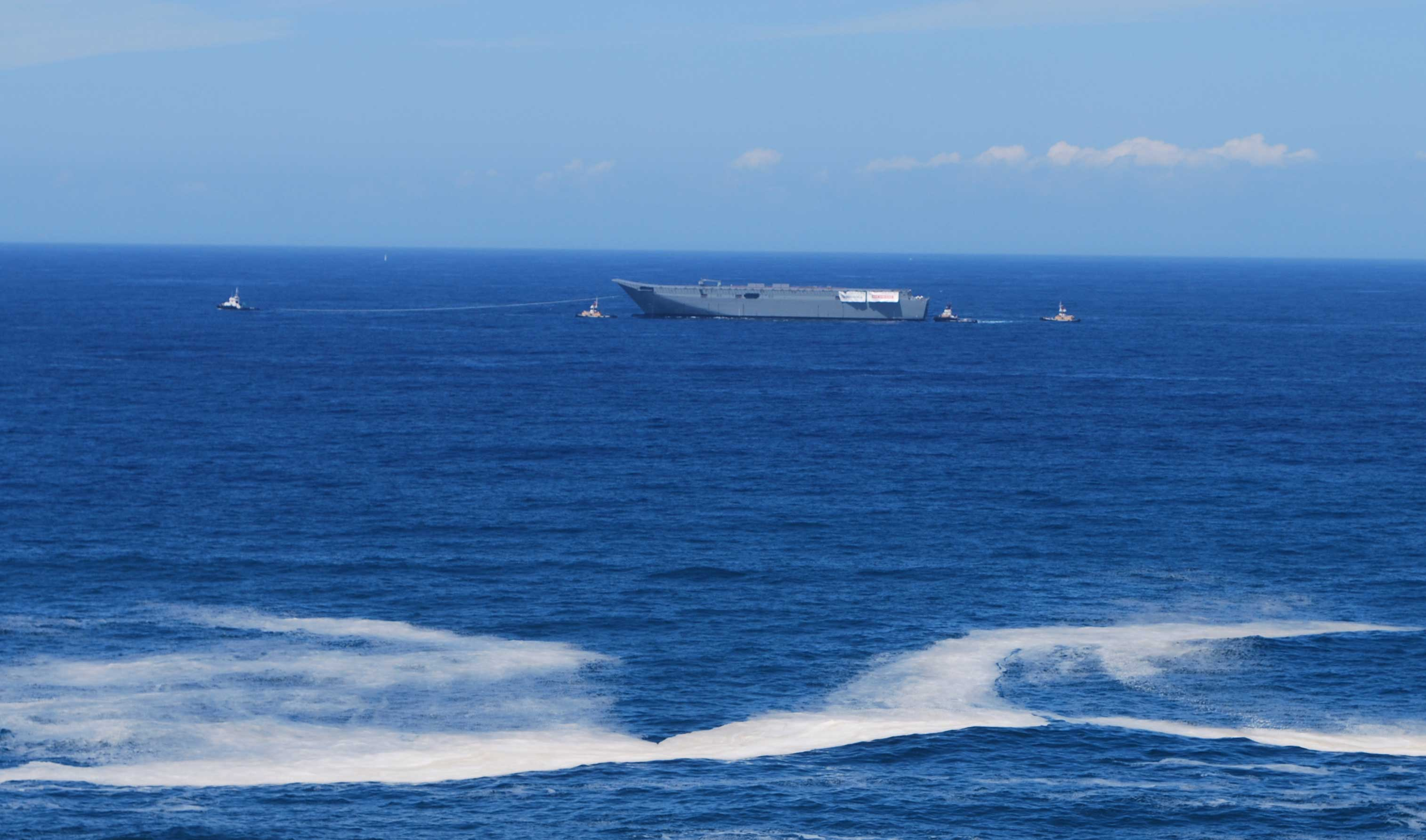 HMAS Canberra sail fron Navantia Ferrol to Punta Langosteira port in Arteixo (spain)